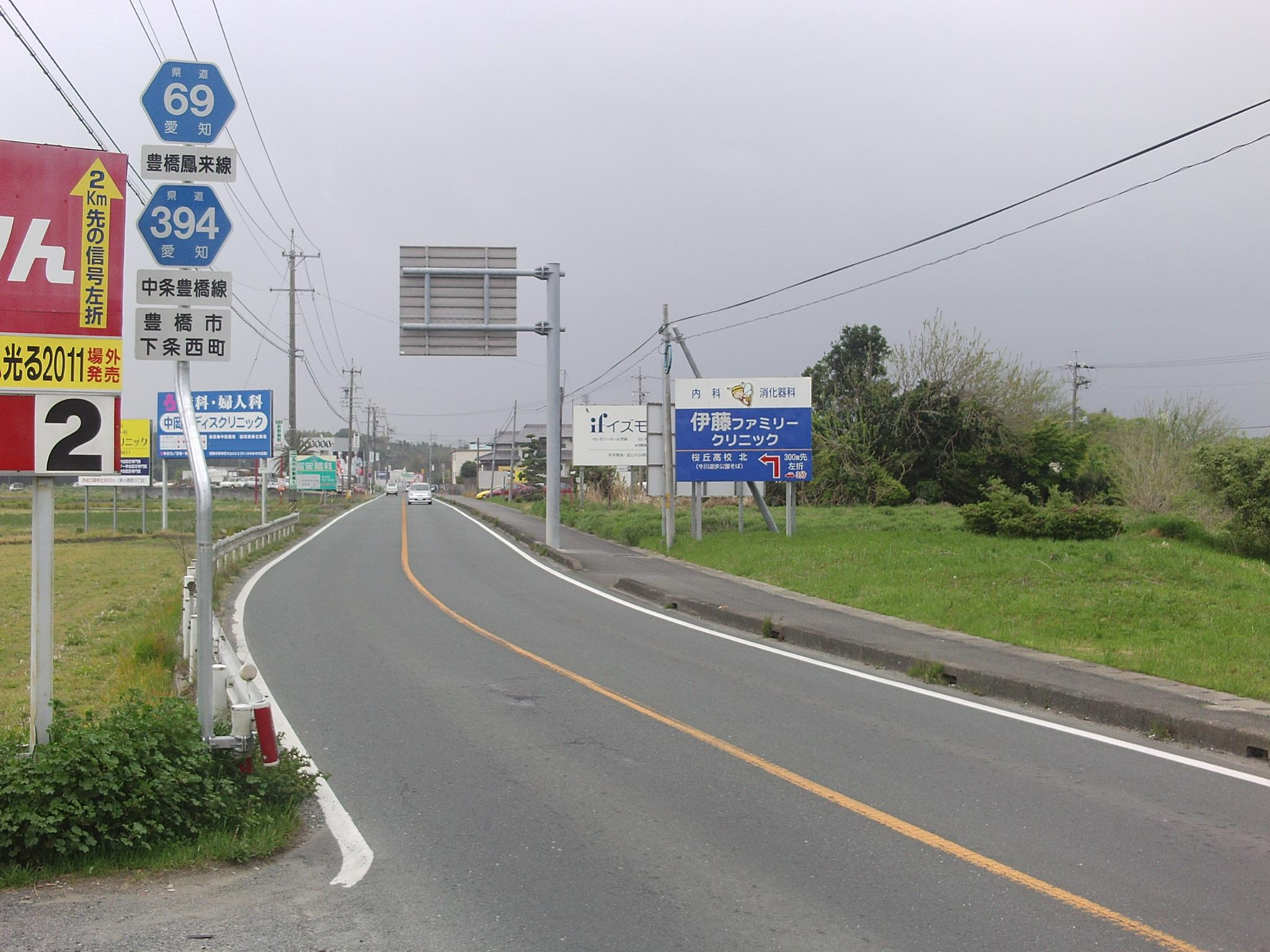 Aichi prefectural road No.69 and No.394 overlap zone in Gejonishimachi, Toyohashi, Aichi.